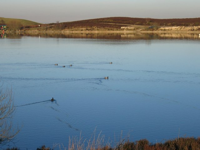 Across Llyn Cyfynwy The ducks have disturbed the calm surface of the fishing lake.